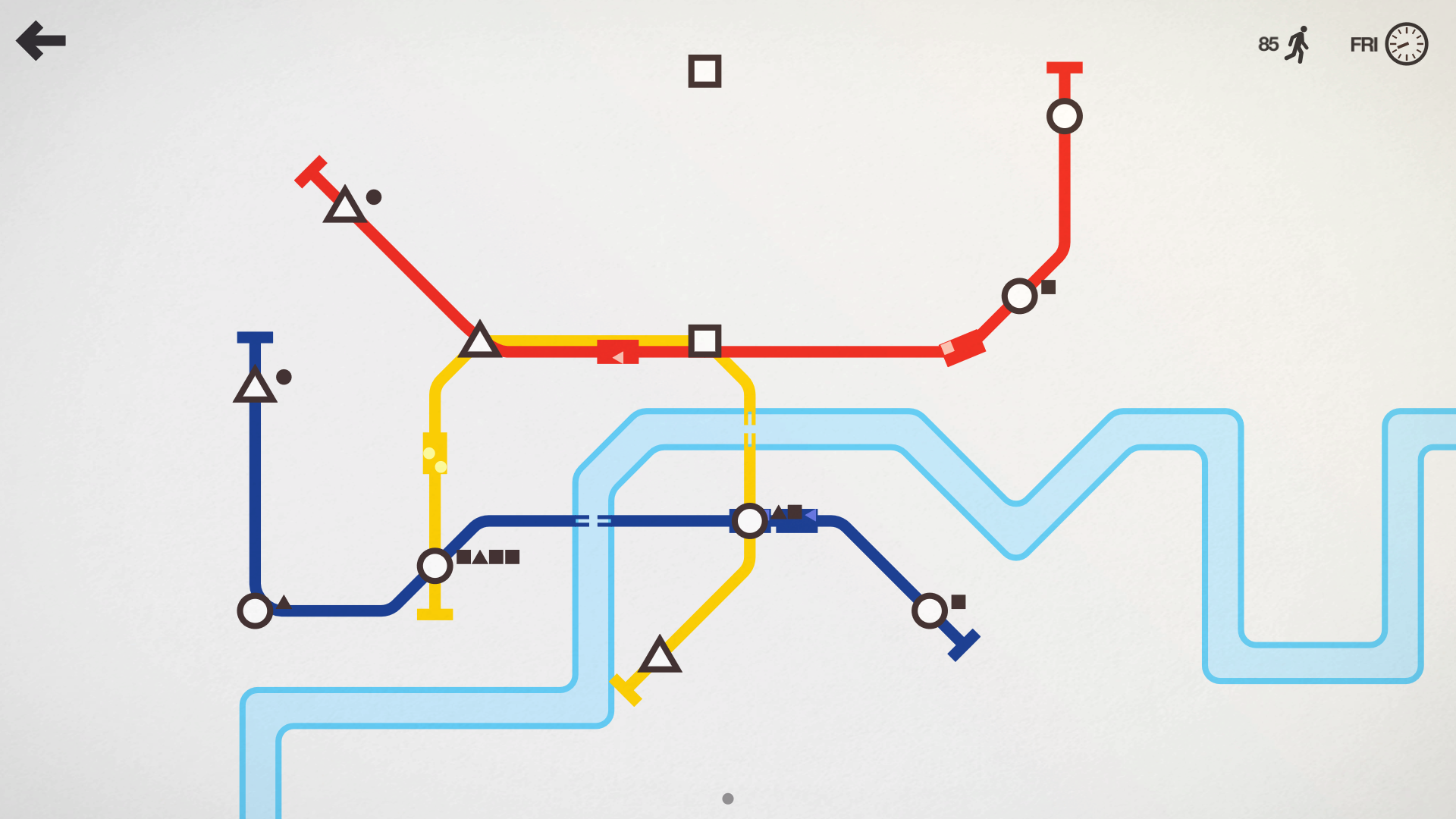 Screenshot from Mini Metro